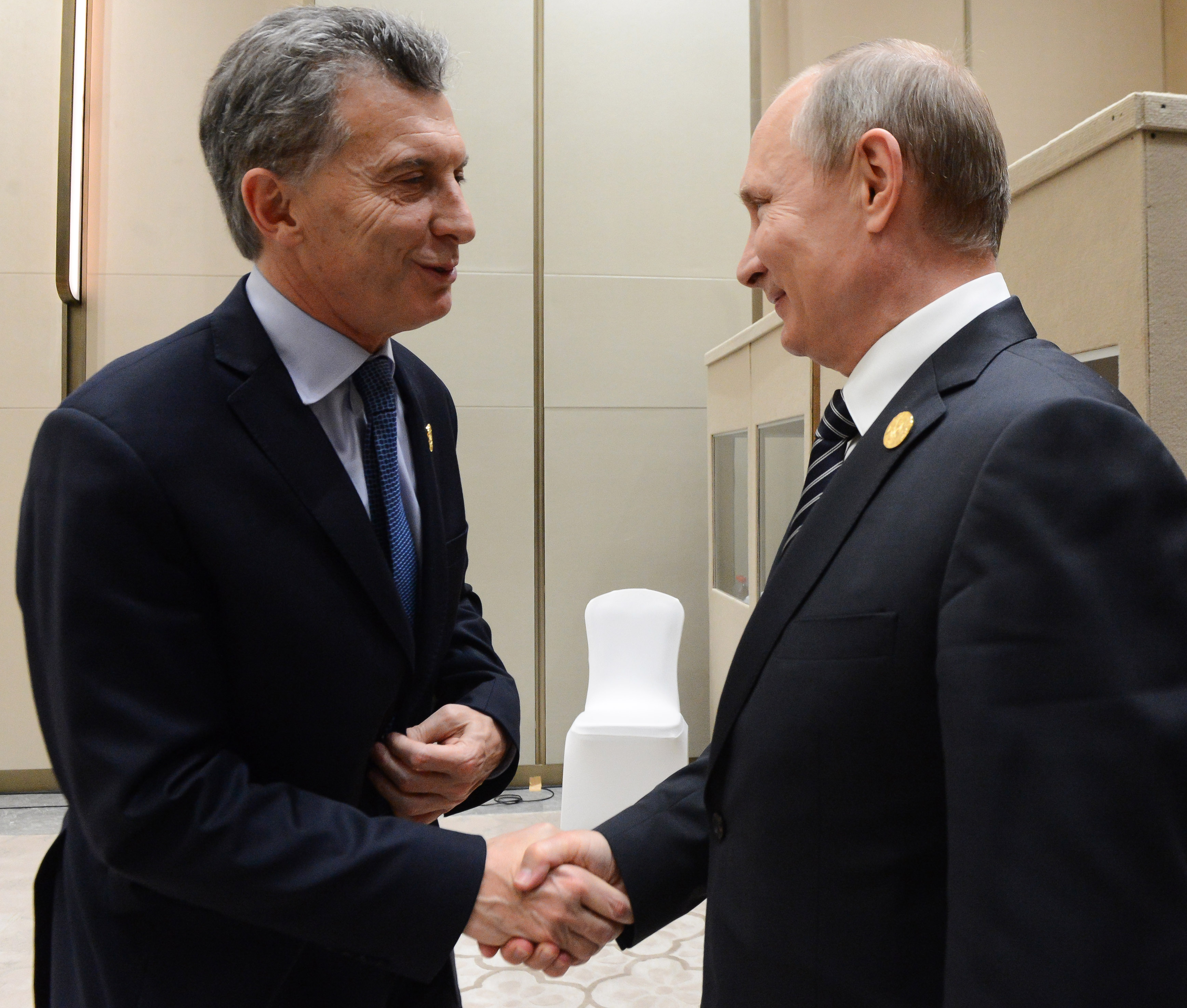 Argentina's president Mauricio Macri with his russian counterpart Vladimir Putin.